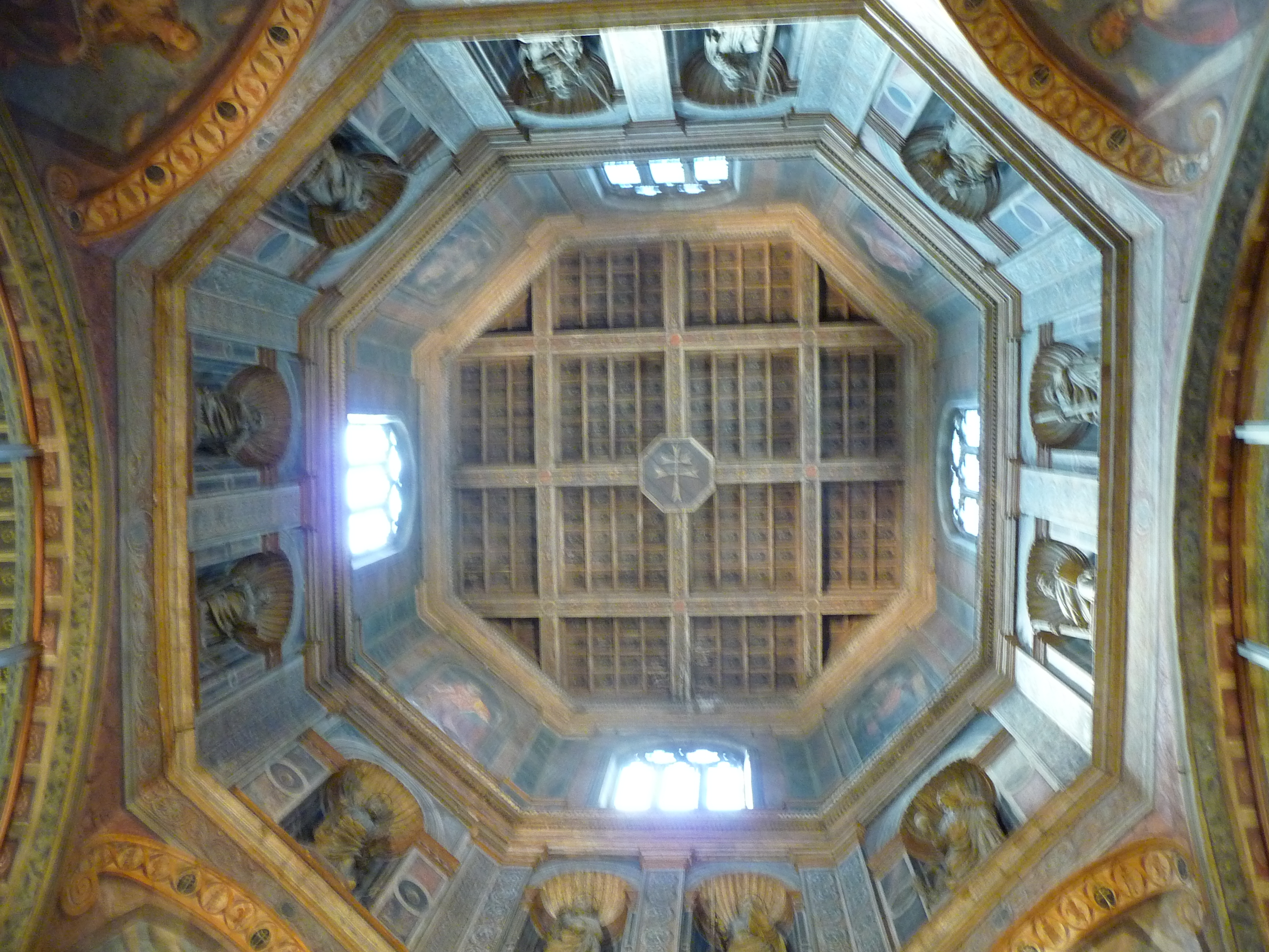 Santo Spirito in Sassia, Rome; Corsia Sistina, dome